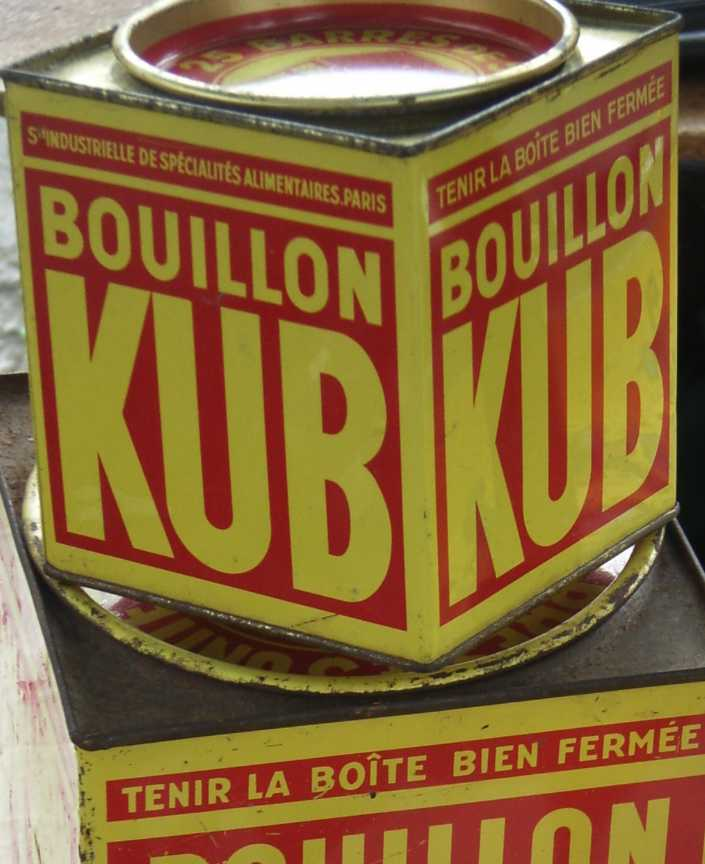 Picture taken on flea market in L'Isle-sur-la-Sorgue, France